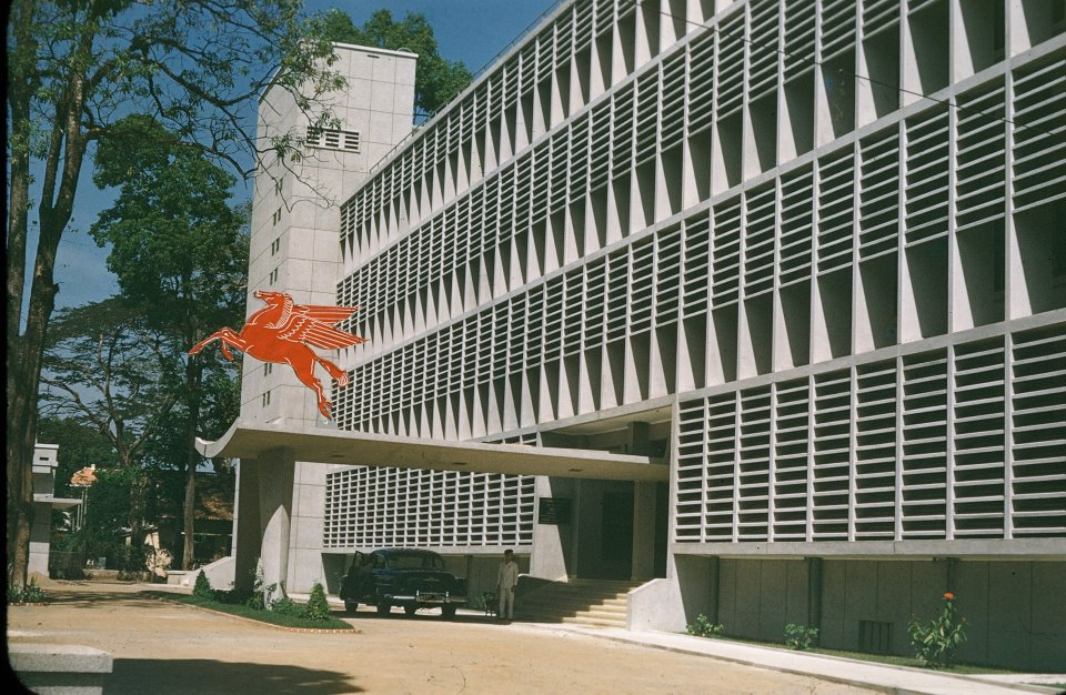 This 1955 picture shows the newly-constructed headquarters building of StanVac in Saigon, South Vietnam. Standard Vacuum Oil Company existed until 1962. This picture was provided by Pete Case, whose father was the general manager of StanVac in Vietnam